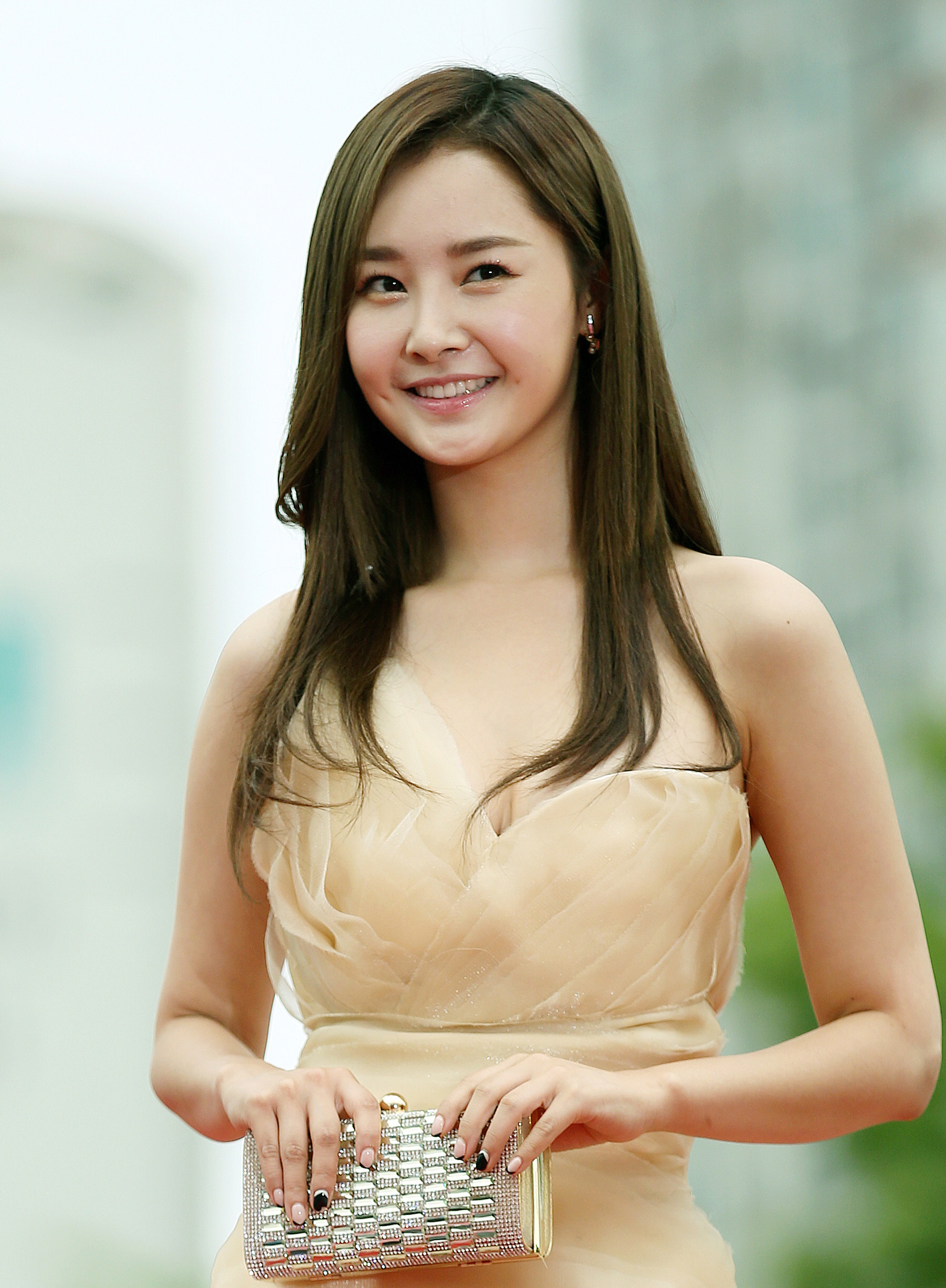 Singer Woohee, of the girl group Dal Shabet, at the Pifan opening ceremony on July 17, 2014